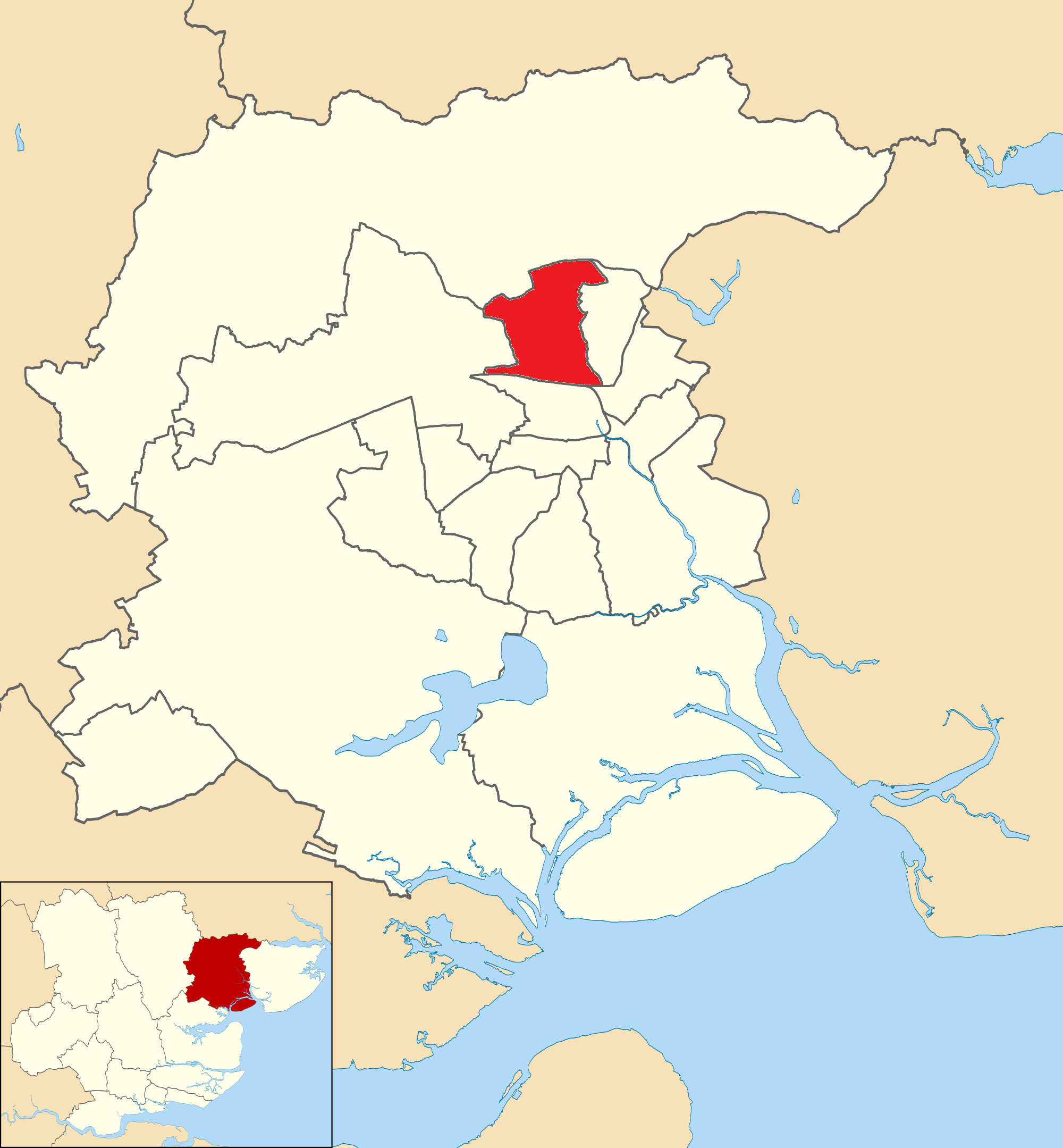 Mile End ward highlighted within Colchester Borough